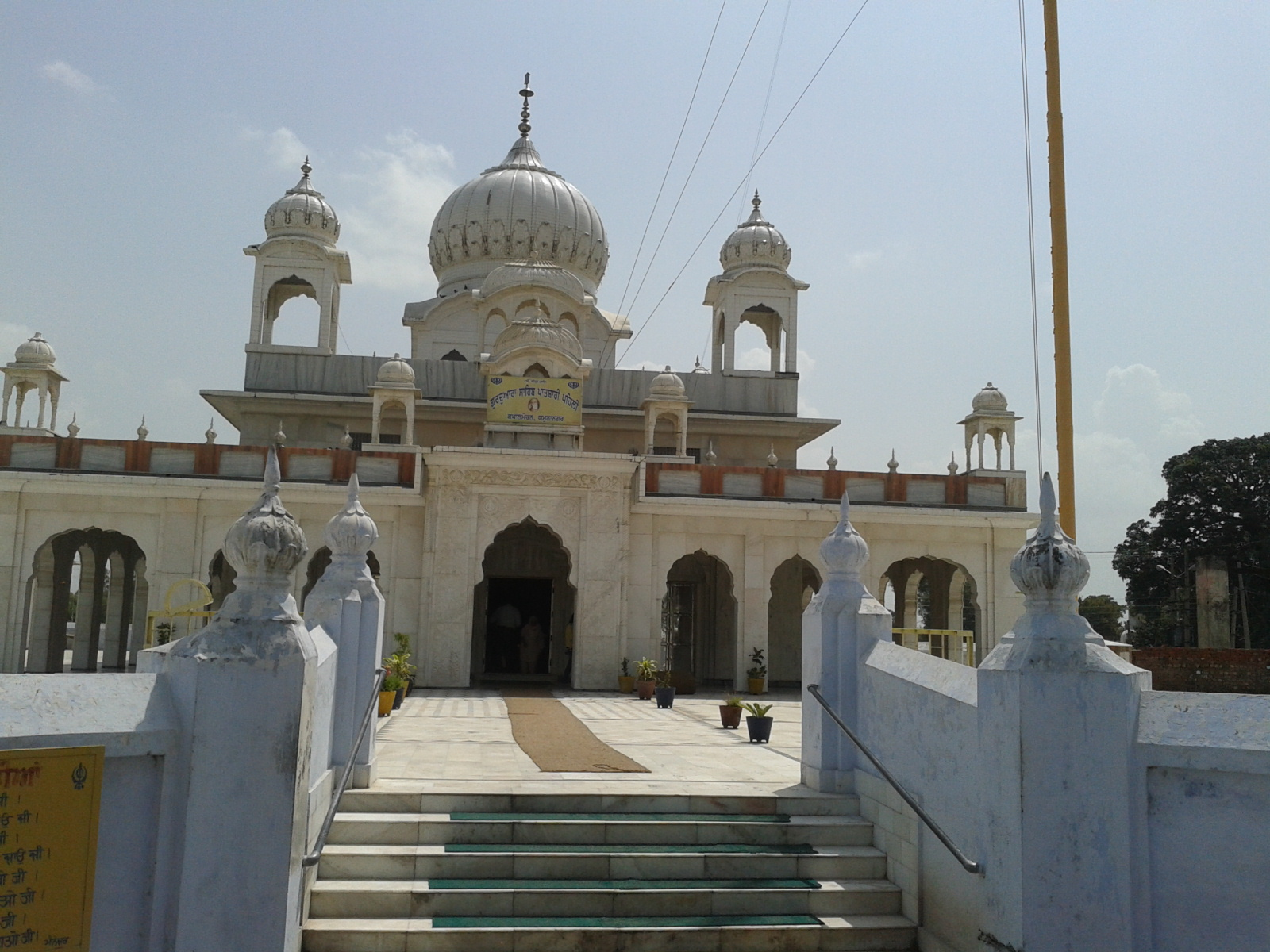 Kapal Mochan Gurdwara, situated in Haryana, India